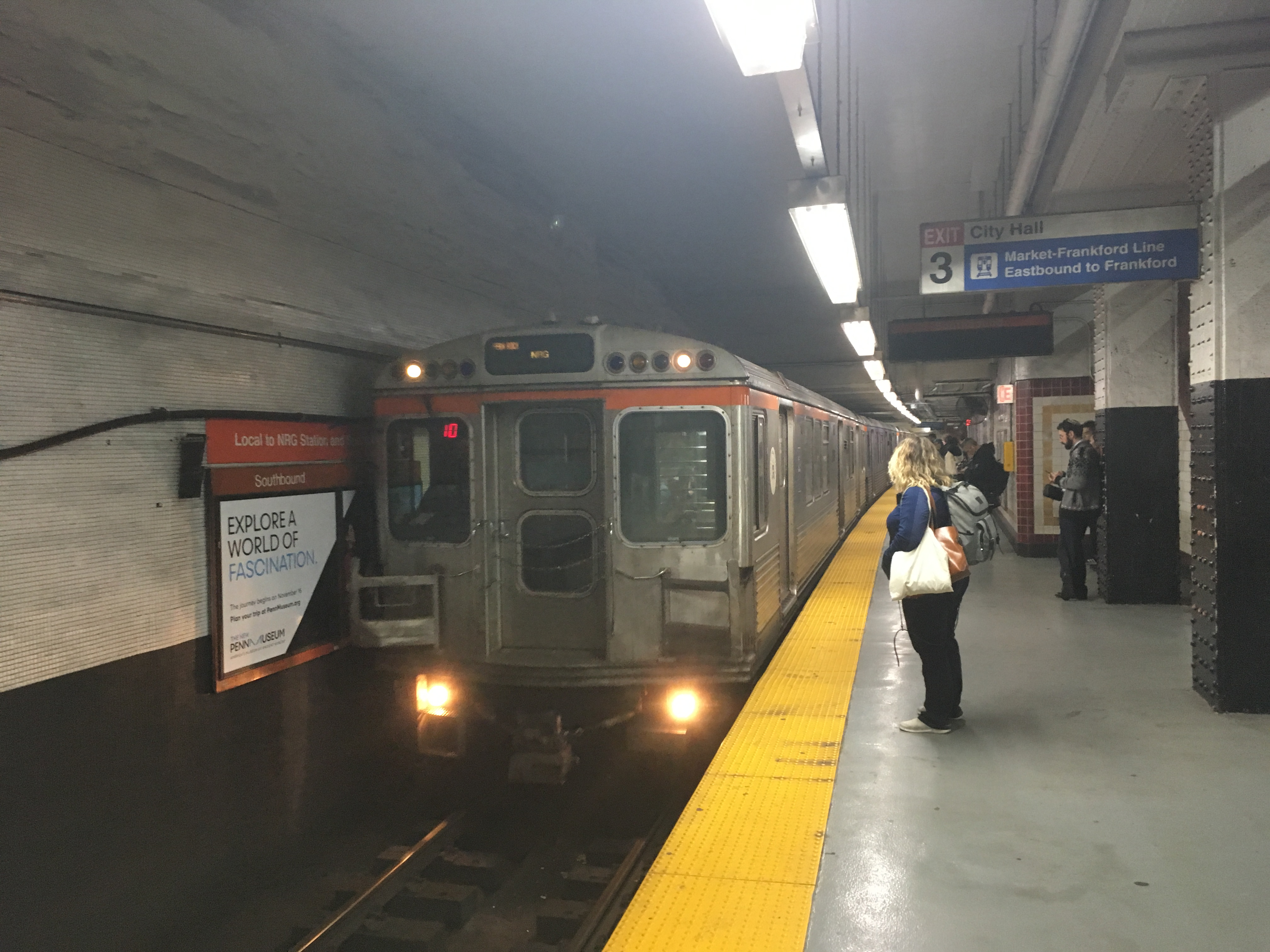 SEPTA Kawasaki B-IV 689 leads a Broad Street Line local train bound for NRG station into City Hall station in Philadelphia, Pennsylvania